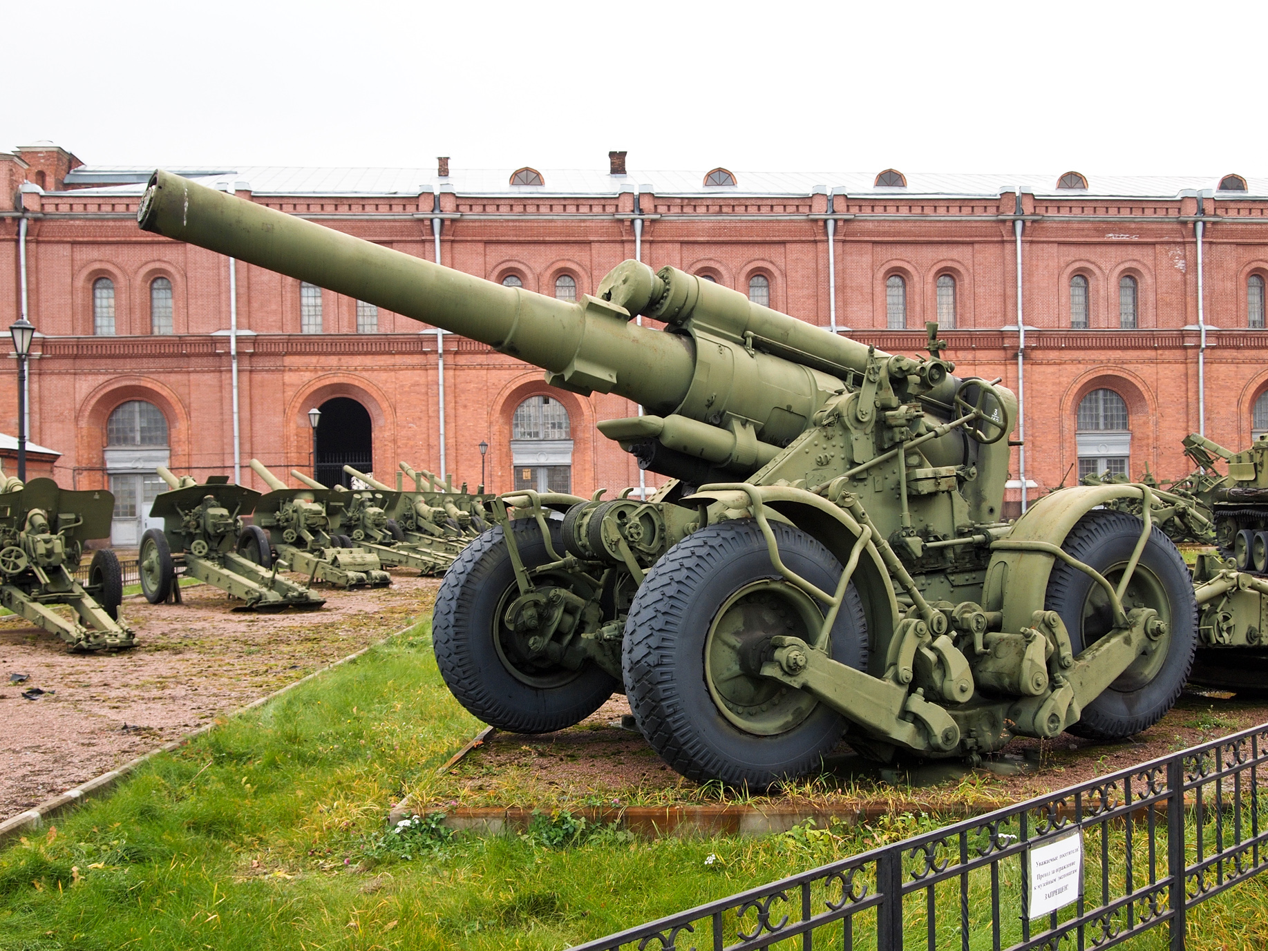 203-mm howitzer B-4M in Saint Petersburg Artillery museum